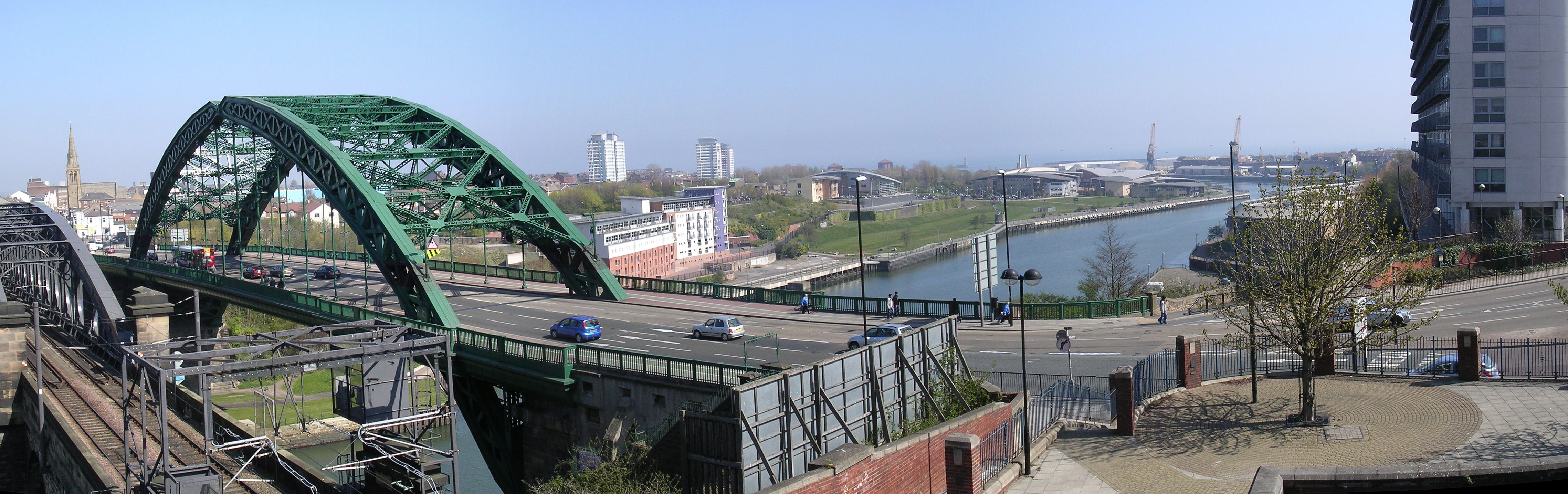 Wearmouth Bridge, Sunderland, and the River Wear